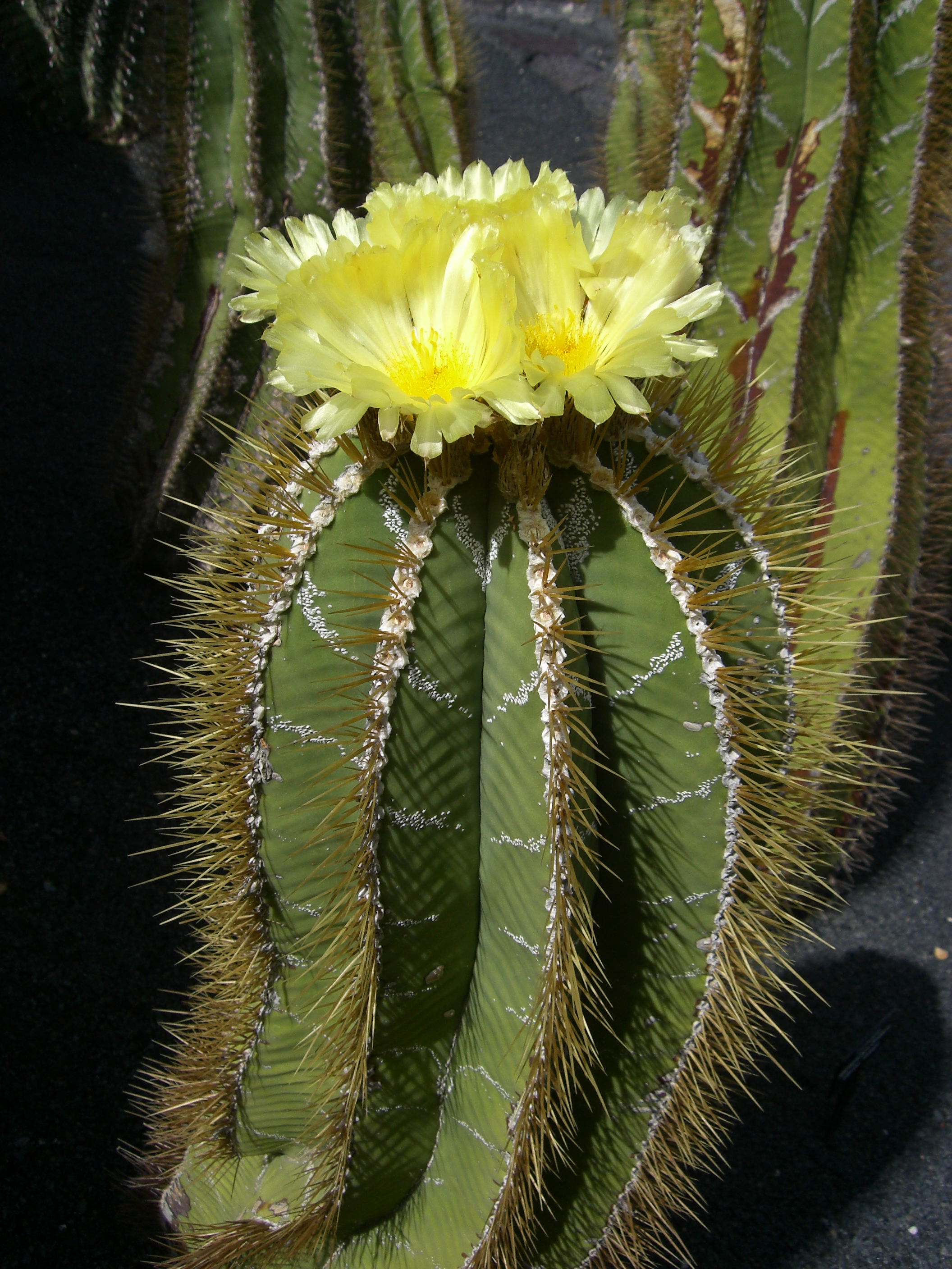 Astrophytum ornatum